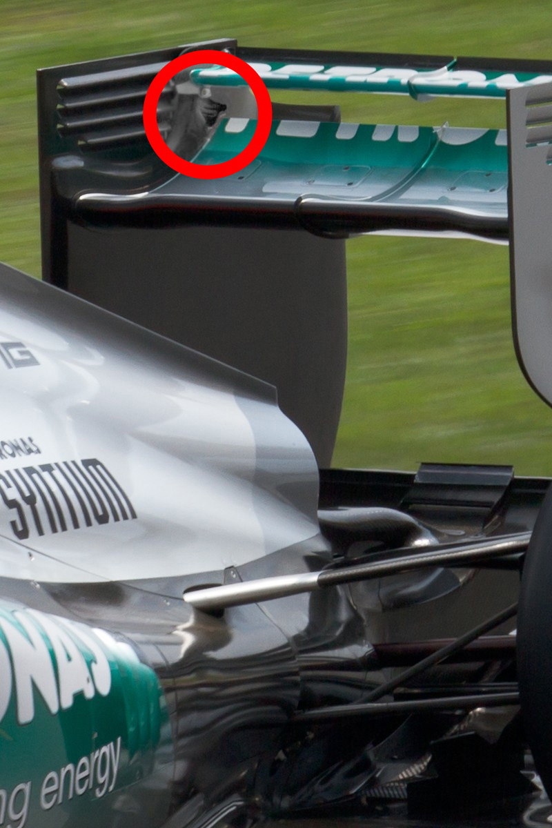 Formula One 2012 Rd.2 Malaysian GP: Mercedes F1 W03's air-intake on rear wing with focus on the f-duct